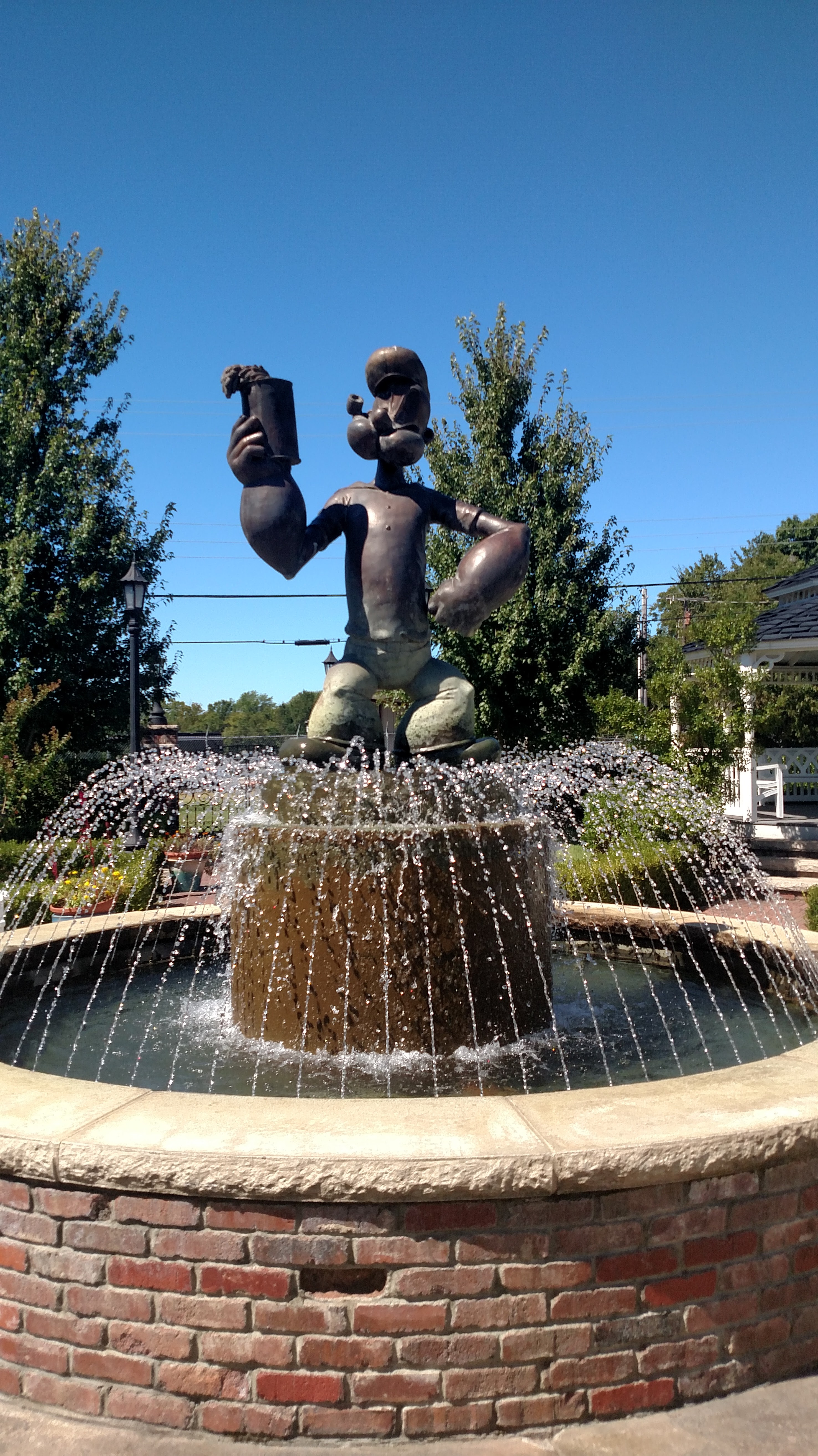 Popeye Statue in downtown Alma